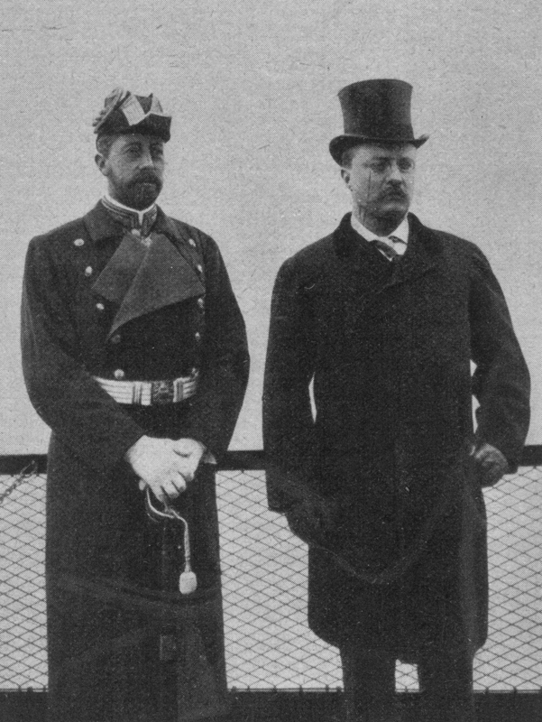 Prince Heinrich of Prussia (1862-1929) and Theodore Roosevelt (1858-1919) at Shooters-Island/New York.